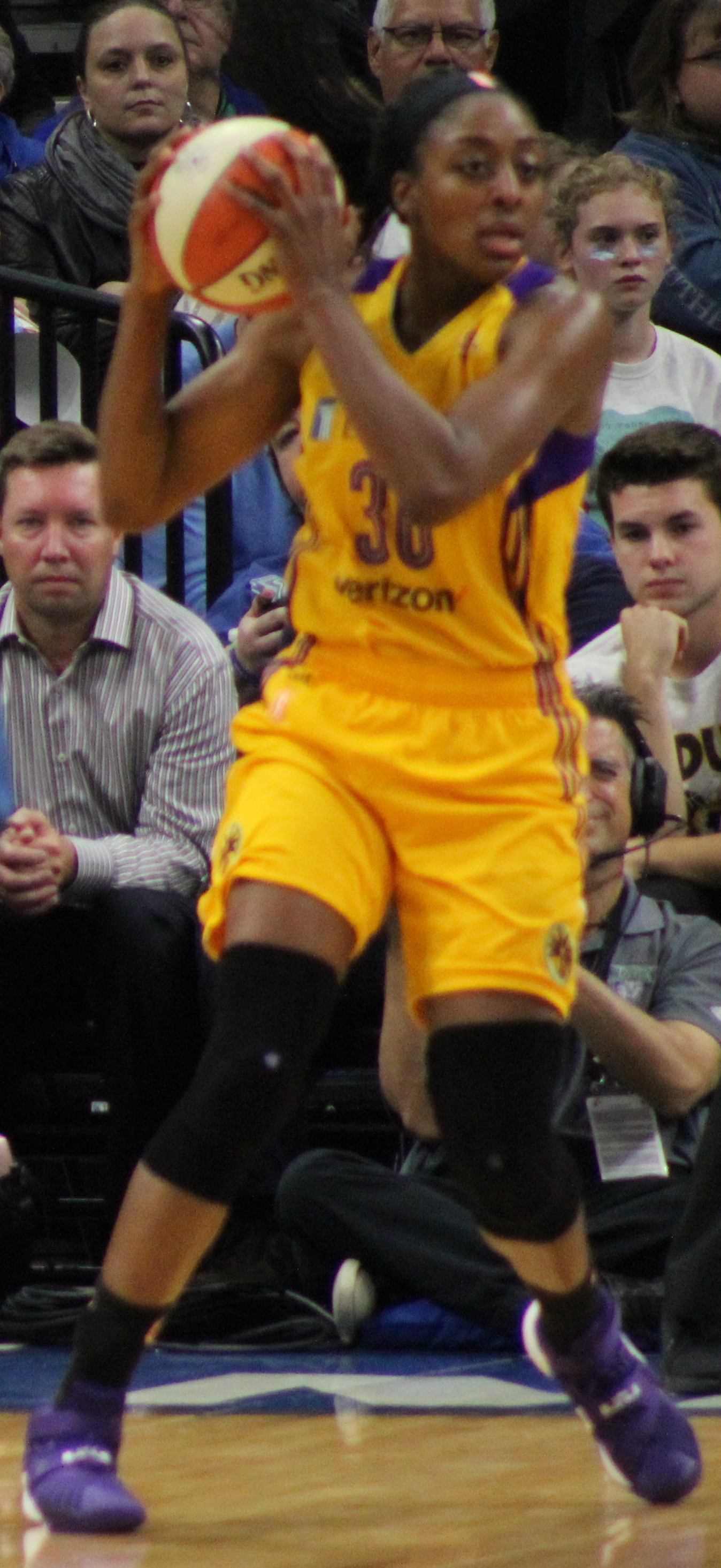 Nneka Ogwumike of the Los Angeles Sparks